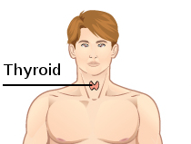 Based off